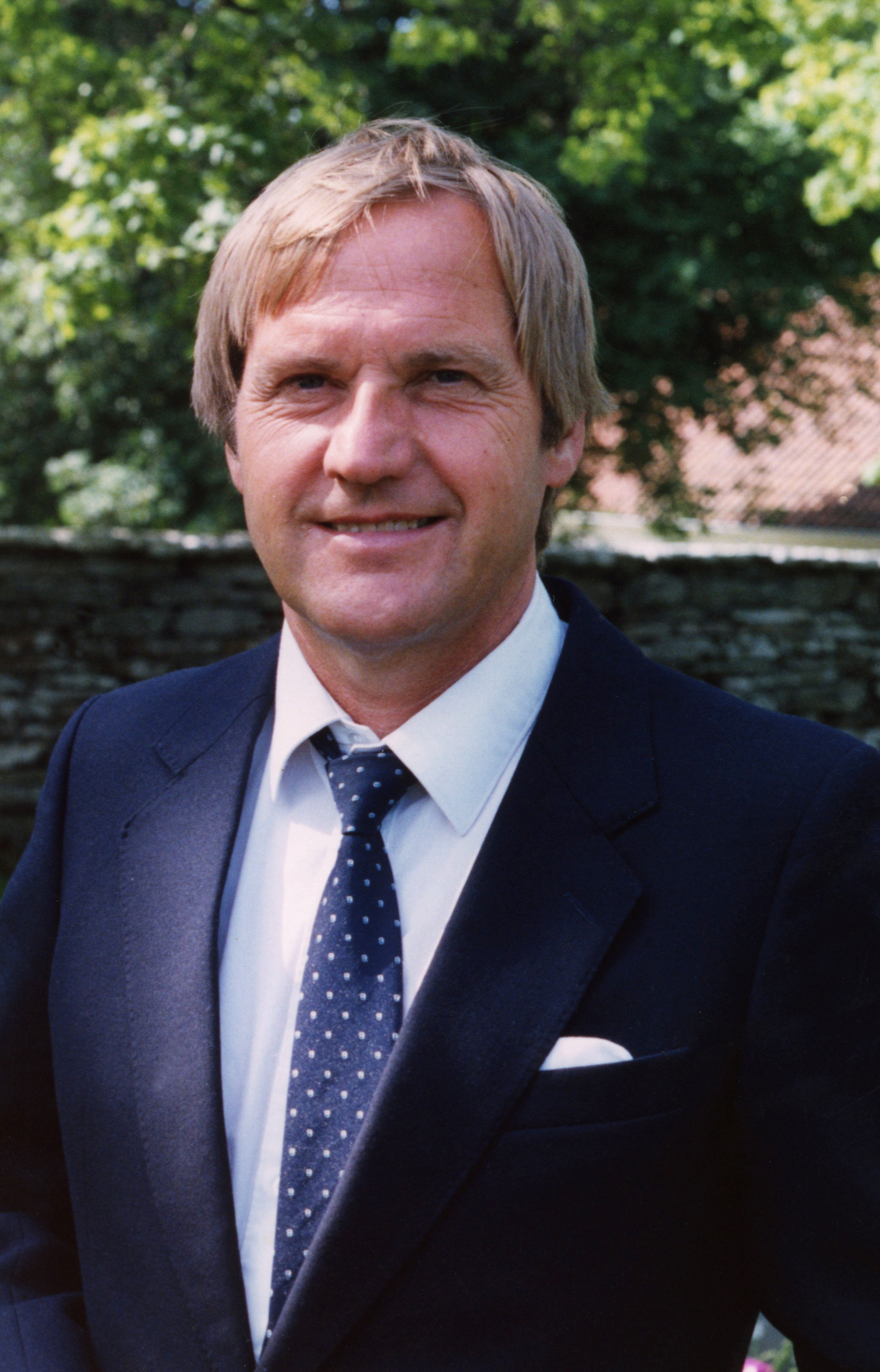 Tord Slättegård, opera singer tenor